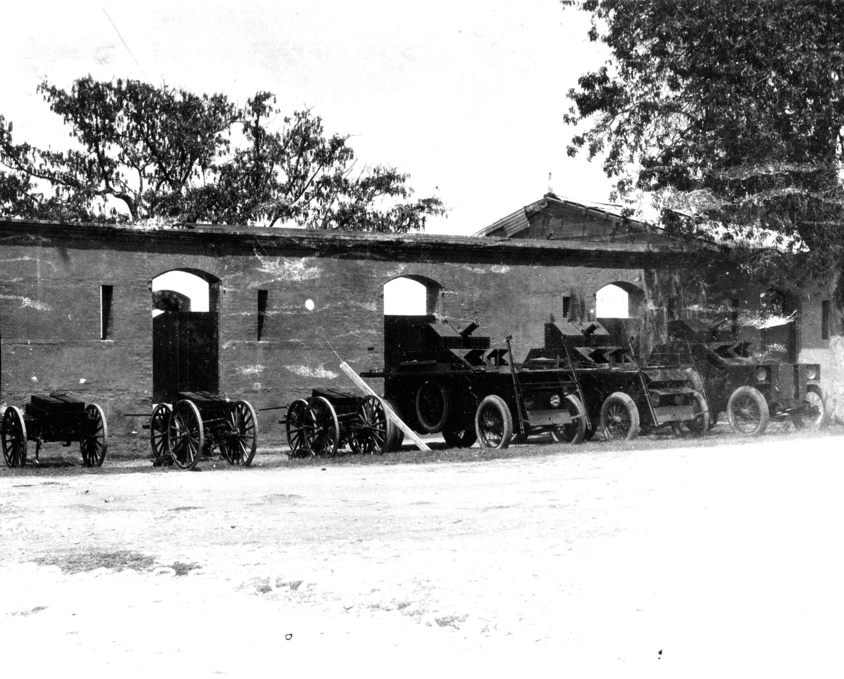 37mm Guns and King Armored Cars of the 1st Armored Car Squadron in Haiti, sometime after 1921